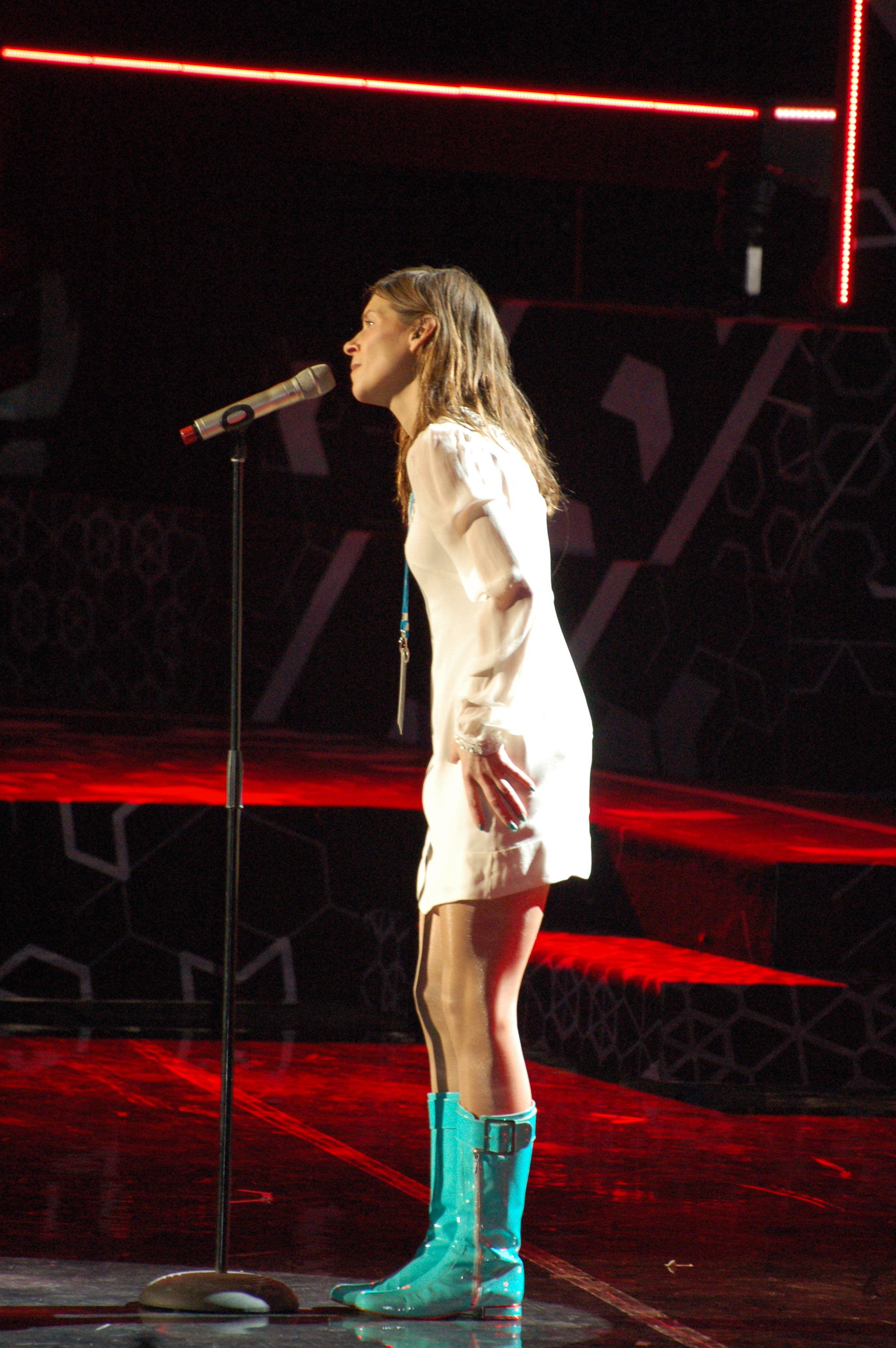 Caroline Af Ugglas Melodifestivalen 2009, Norrköping Andra Chansen